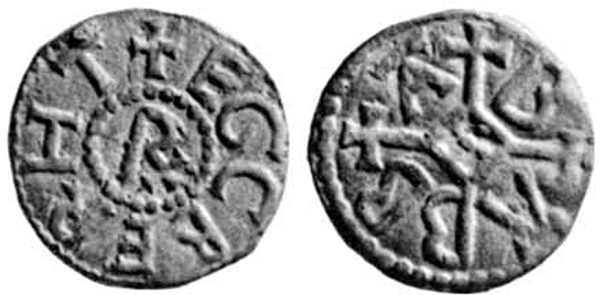 Coin of Ecgberht II of Kent